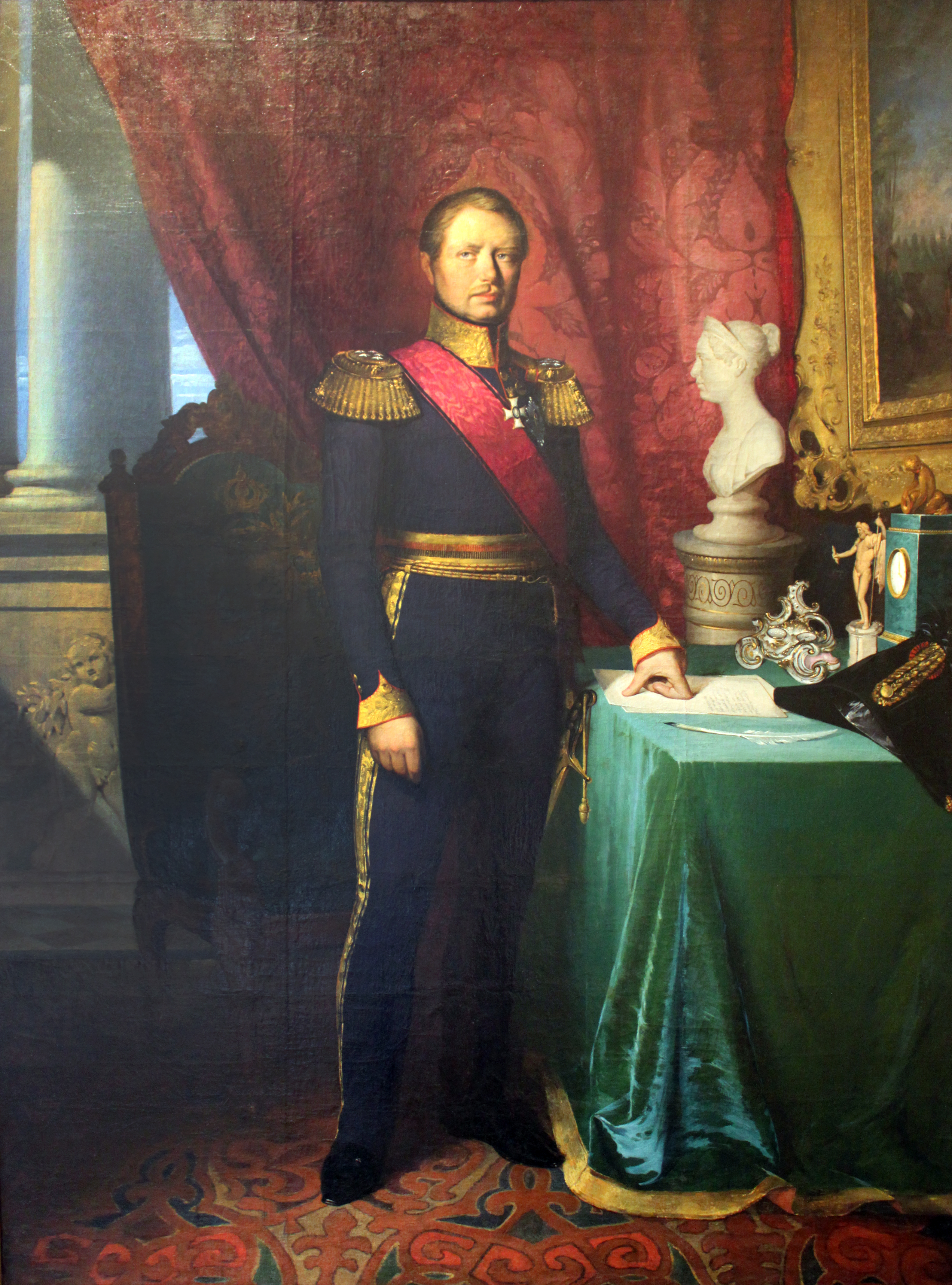 Posthumous portrait of King Wilhelm I of Württemberg (1781-1864) with a marble bust of his late wife Katharina